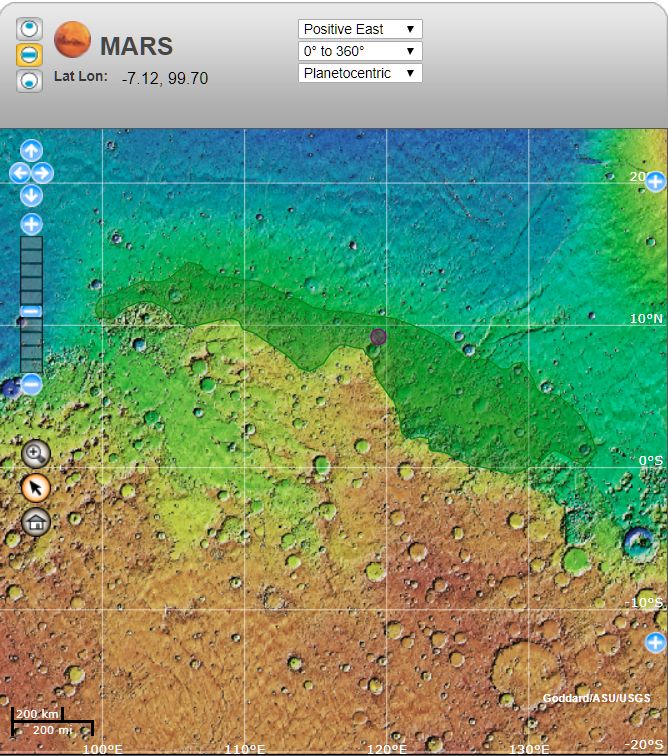 Gazetteer of Planetary Nomenclature - Nepenthes Mensae: Topographical map of the Amenthes and Mare Tyrrhenum quadrangles, with a highlight circle on the area of Nepenthes Mensae. International Astronomical Union (IAU) Working Group for Planetary System Nomenclature (WGPSN) Planetary Names: Mensa, mensae: Nepenthes Mensae on Mars